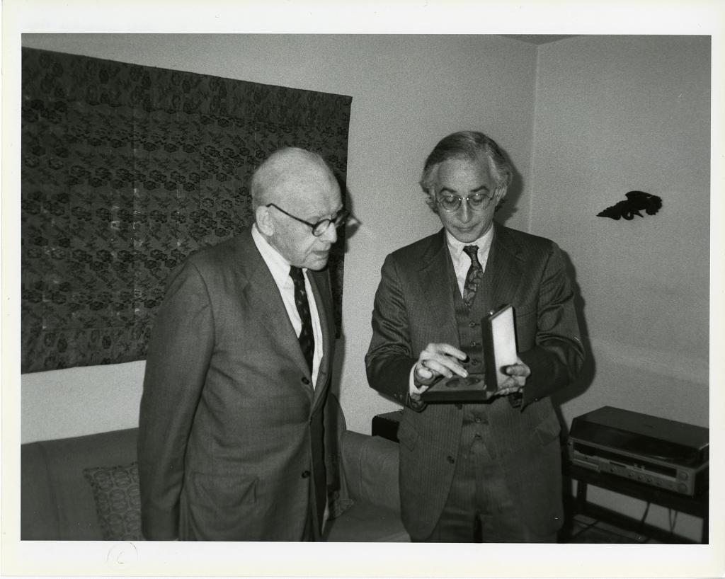 1990. Milo Cleveland Beach, Director of the Freer and Arthur M. Sackler Galleries, presents the Charles Lang Freer Medal to Alexander Coburn Soper, III, historian of Asian art and professor at the Institute of Fine Arts in New York City